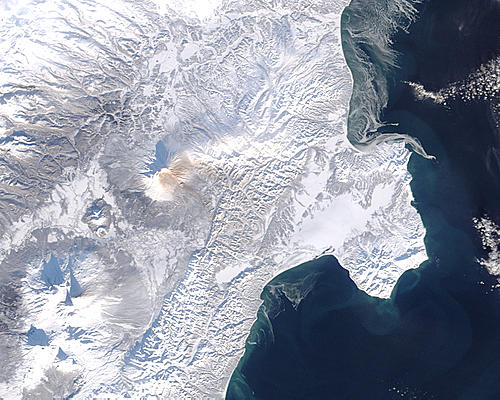 Klyuchevskaya Sopka, the largest volcano on the Russian peninsula of Kamchatka, and Shiveluch, a neighboring volcano, are becoming active again. According to news reports, Klyuchevskaya is sending ash to a height of 50 meters, though the plume is barely visible in the lower left corner of the image. The 15,863-foot tall volcano is the region’s most active. Its most recent eruption ended in January of 2003. Shiveluch, above Klyuchevskaya on the right, erupted on January 11, 2004, sending volcanic ash to a height of 1.5 kilometers, and rock and melted snow down the mountainside. At a height of 10,771 feet, Shiveluch is one of the region’s largest and most active volcanoes. Its last eruption, which lasted for two years, ended late last year. Shiveluch’s ash plume is visible in this true-color Moderate Resolution Imaging Spectroradiometer (MODIS) image. Brown ash from the eruption taints the snow around the volcano. Klyuchevskaya, below Shiveluch and to the left, has a thin, barely-visible plume of ash flowing east from its top. The Terra satellite acquired this image on January 12, 2004.